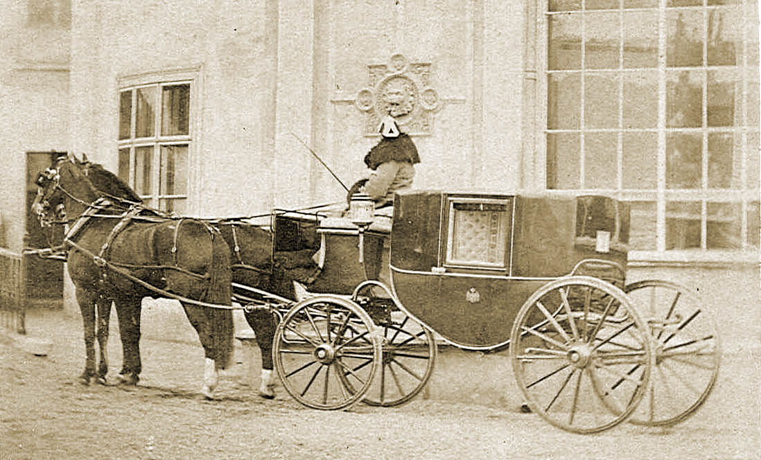 Coach of the Nobility with coachman